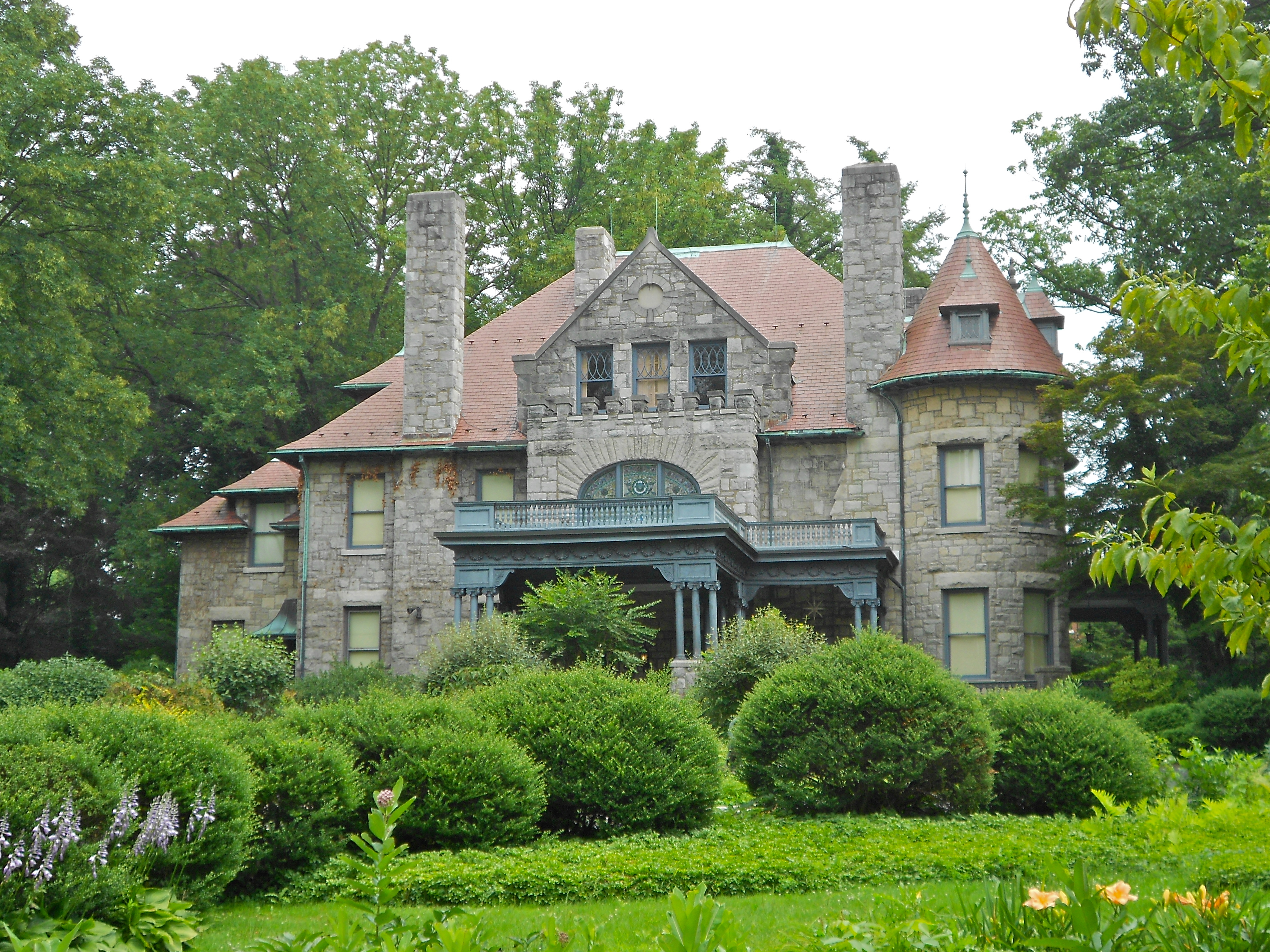 House in Northeast Lancaster Township Historic District on the NRHP since March 20, 1986. The historic district is roughly bounded by Marietta, Race, and Wheatland Avenues and Wilson Drive, Lancaster Township, Lancaster County, Pennsylvania. This house is at 1035 Marietta Ave., at the corner with President Avenue, near Wheatland, President Buchanan's home